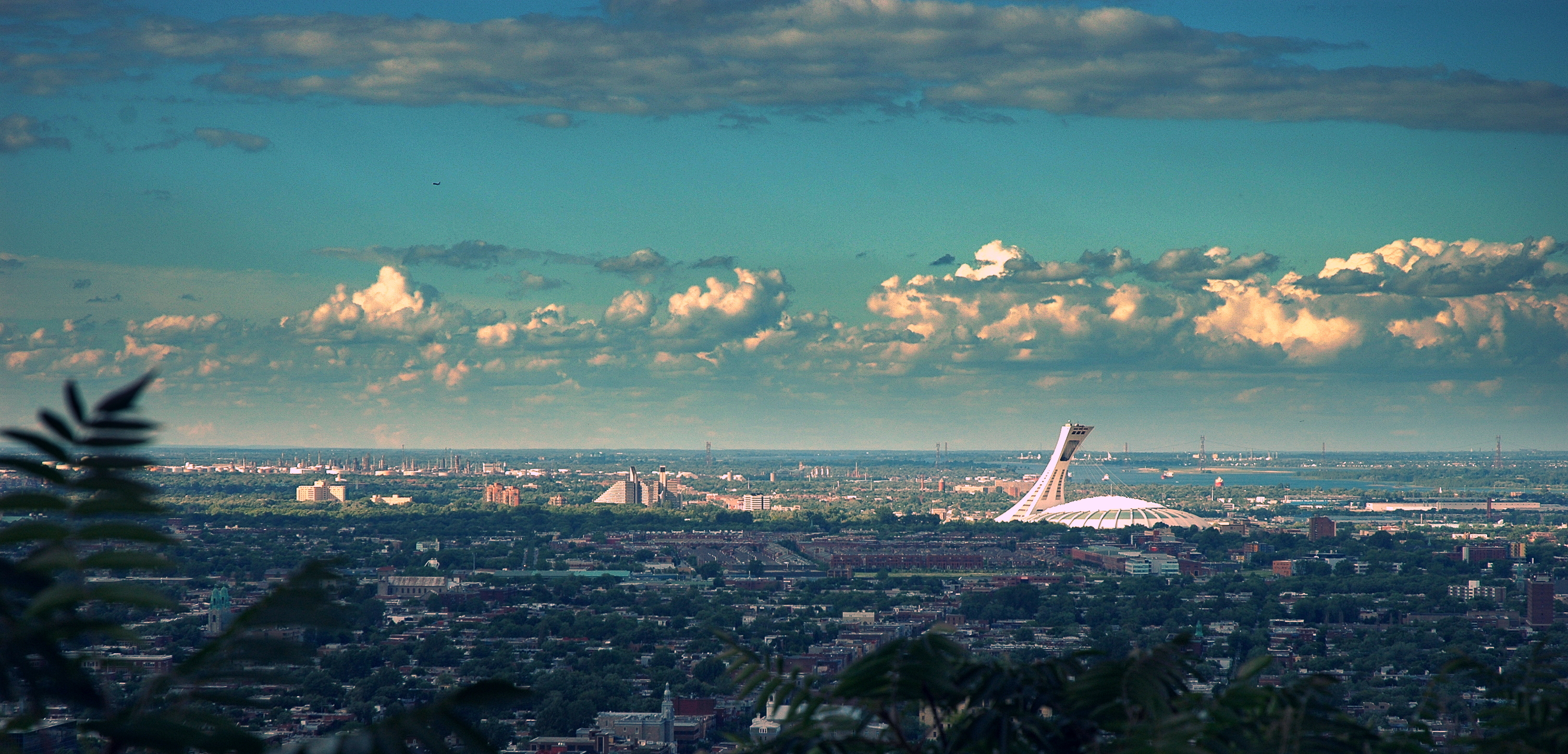 Montreal Botanical Garden area on a clear day